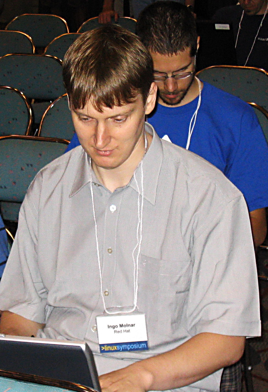 The from Redhat employed Linux-Kernel-Hacker Ingo Molnár at the LinuxSymposium.